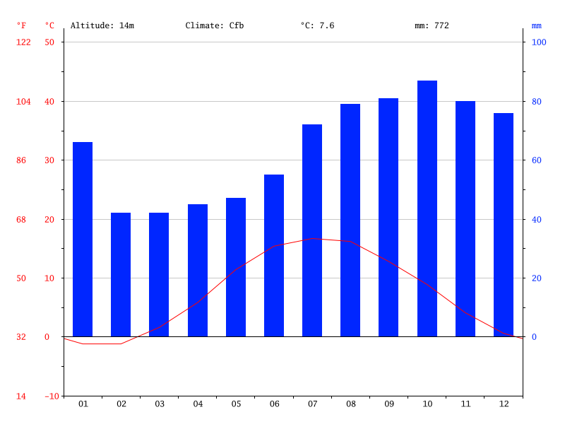 CLIMATE GRAPH GOTHENBURG